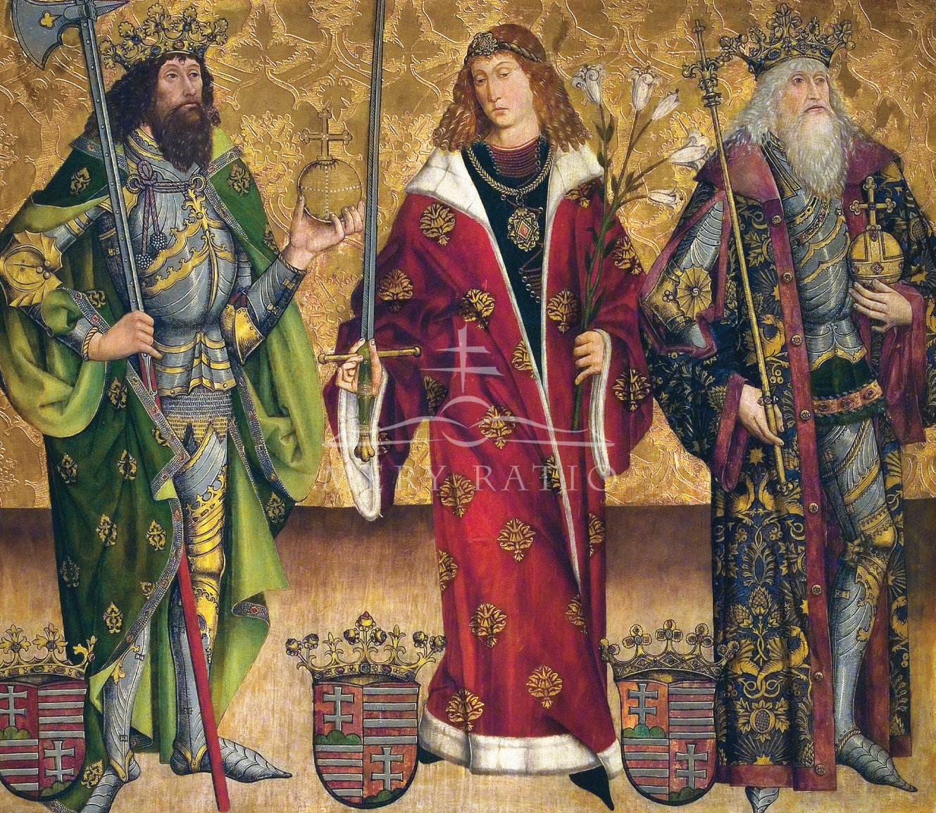 The Hungarian Holy Kings (Saint Ladislaus, Saint Emeric, and Saint Stephen). Painting from the altar of the church of Szepeshely.